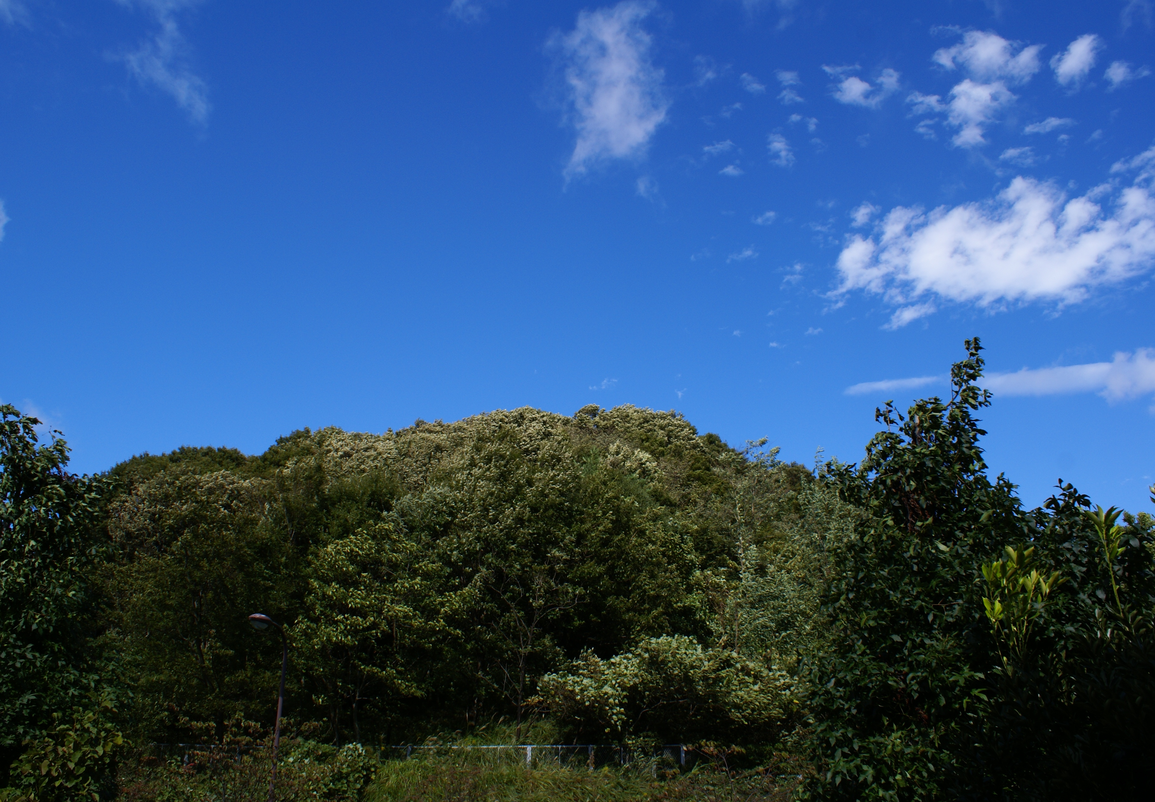 forest of Tama Service Annex